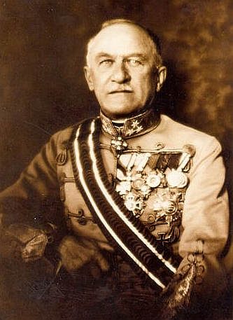 Baron Alexander Szurmay de Uzsok hung. infantery general in WW1, Hungarian Minister of Defence 1917-1918